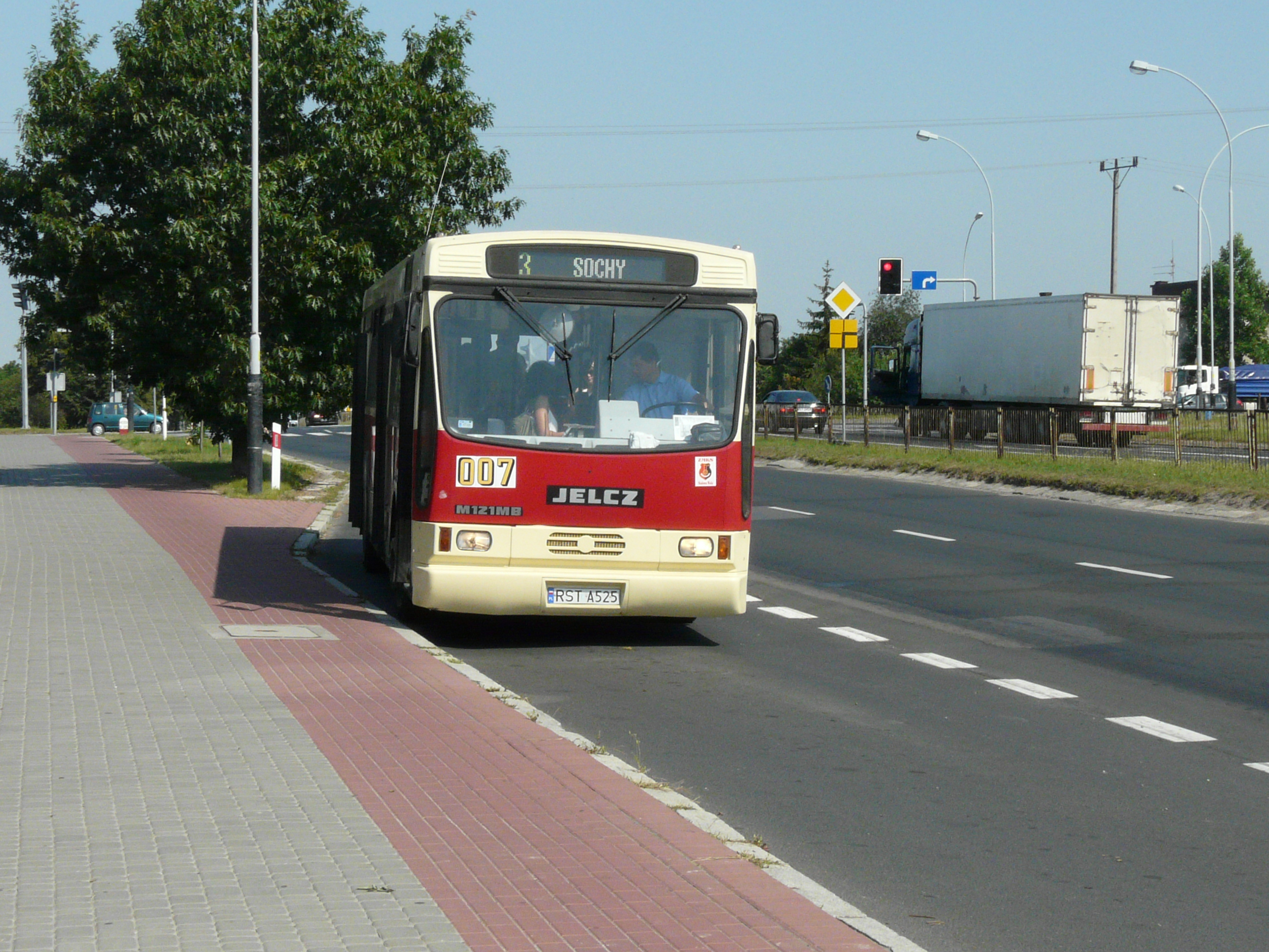 Public transport in Stalowa Wola (Poland) - Jelcz M121MB bus (#007) on line 3. Year built 1996, ZMKS Stalowa Wola operator.